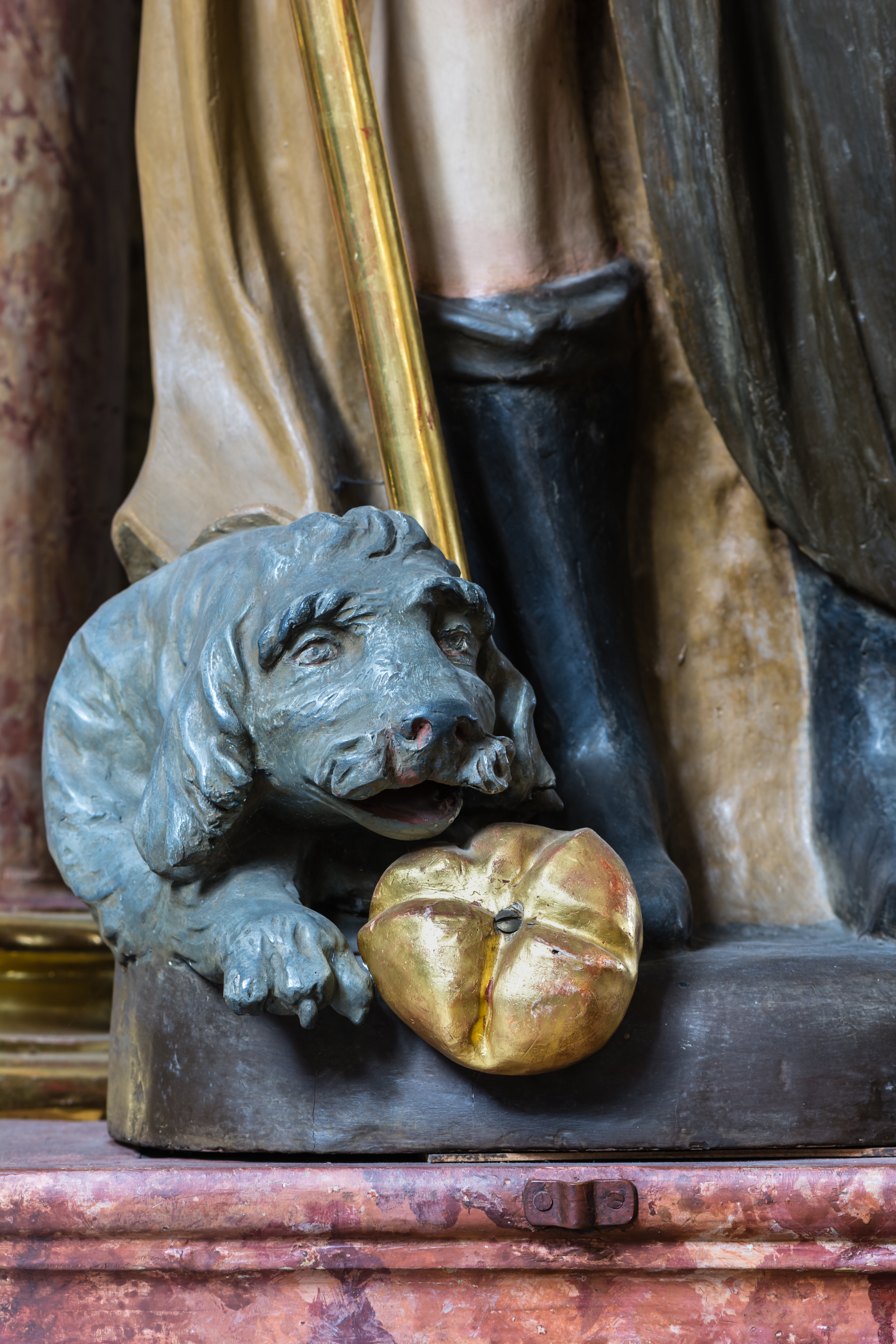 Dog of Saint Roch of Montpellier at the side altar of the parish church Maria Anzbach, Lower Austria